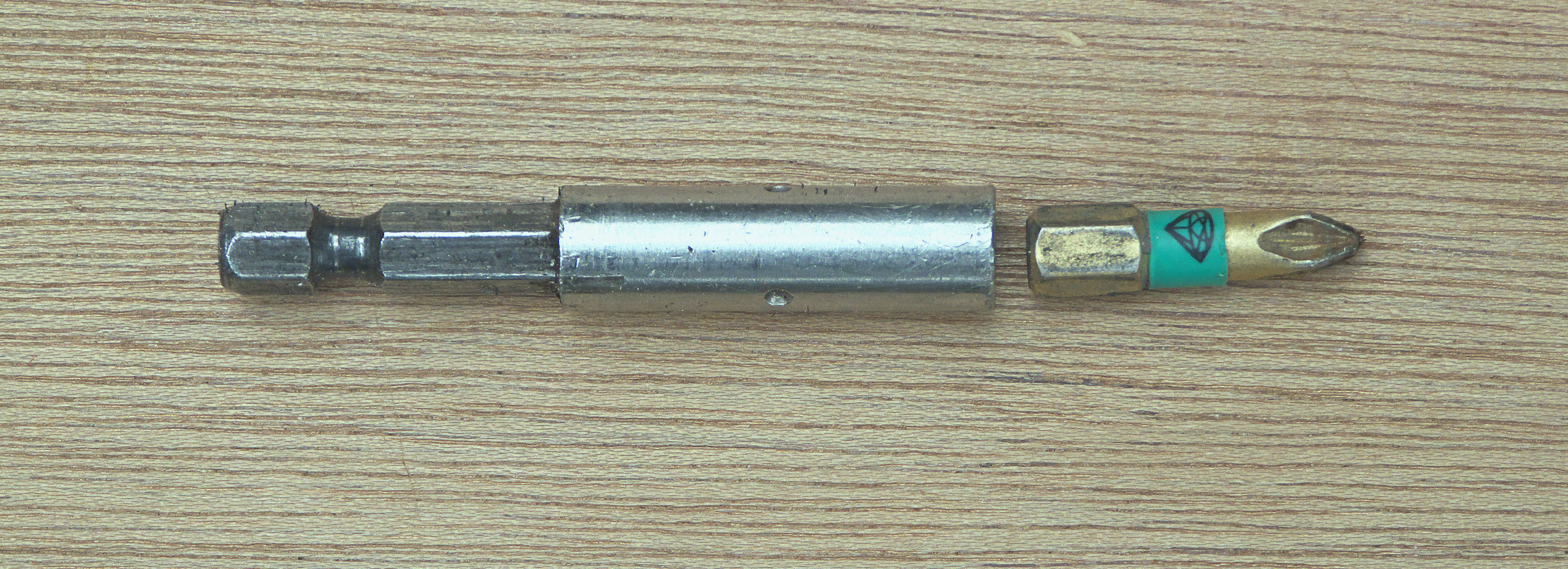 Screw bit holder and screw bit